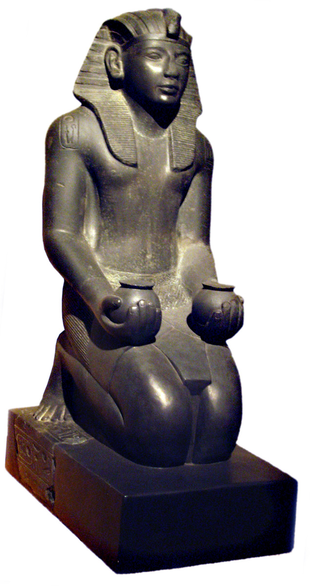 Ramesses IV makes an offering.